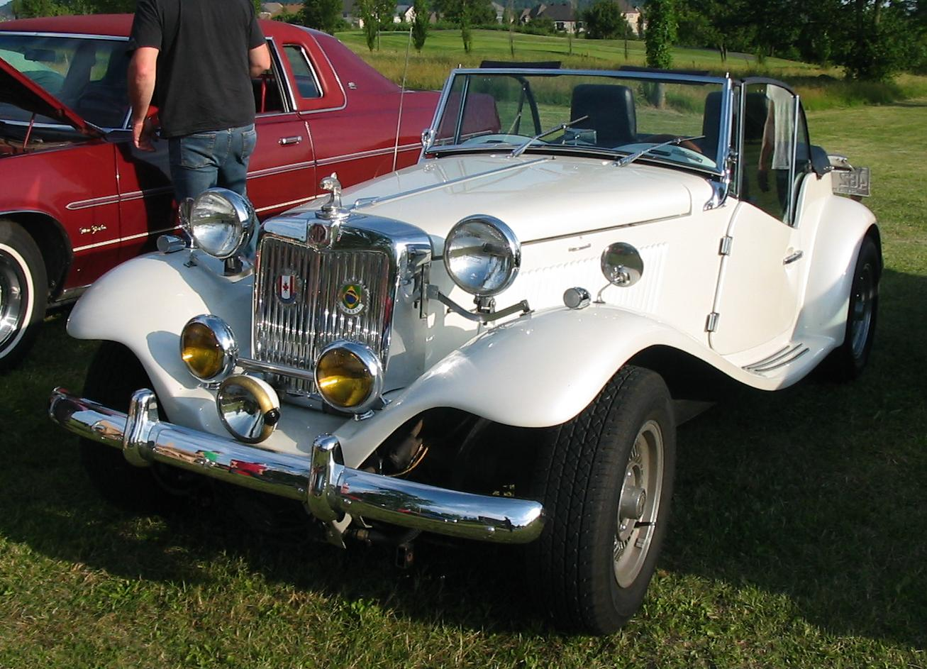 MP Lafer photographed in Mont St. Hilaire, Quebec, Canada at the Auto classique VAQ Mont St-Hilaire.